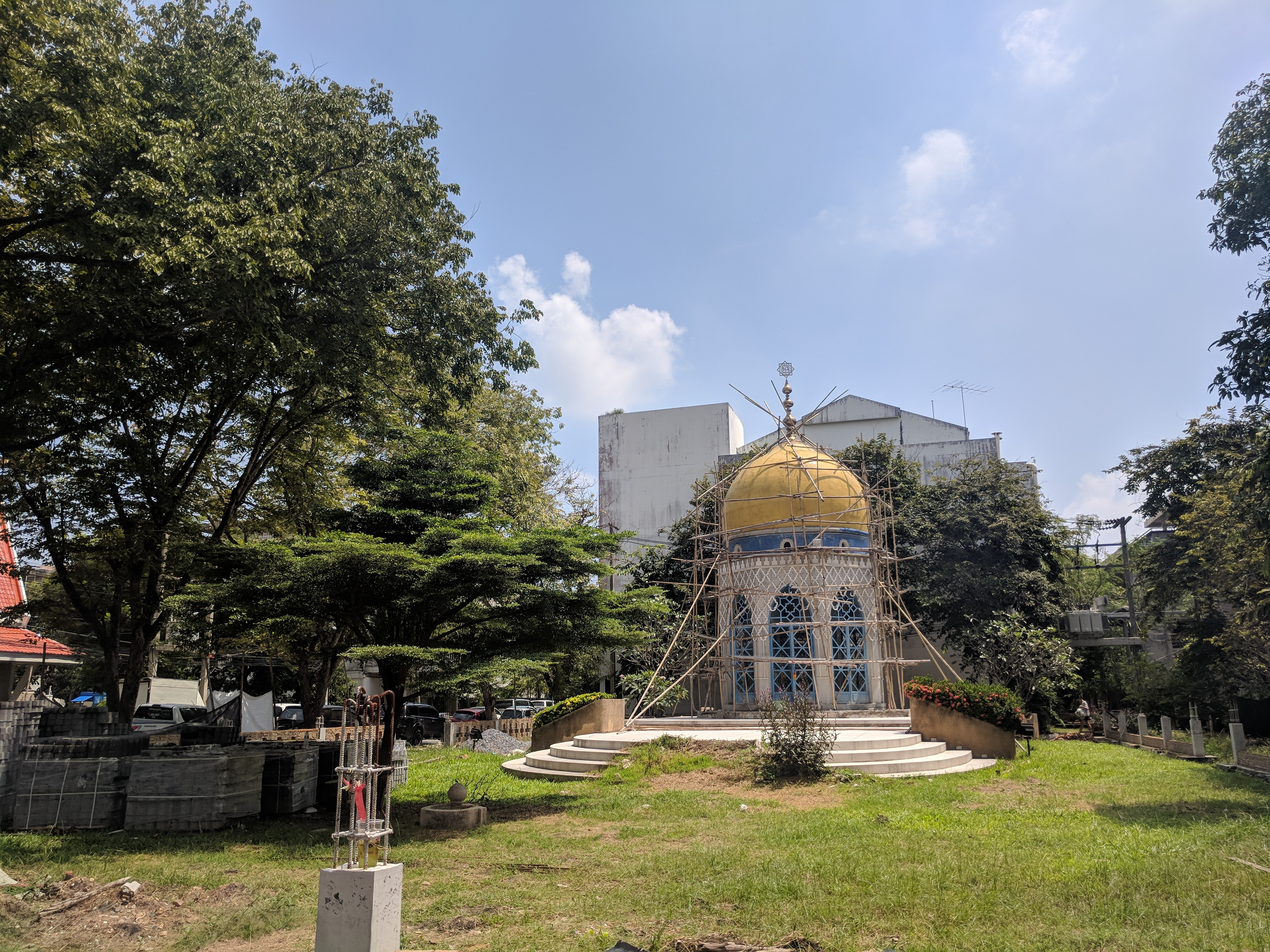 Photo of the tomb of Sheikh Ahmad of Qom (Ahmad Qomi) in Ayuthayya. From Wikivoyage: This tomb has alternating Thai and Arabic calligraphy just below its dome, and is a place of worship among Thai Buddhists and Muslims.